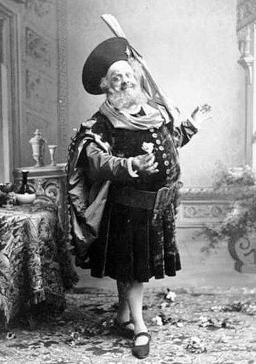 French opera singer Lucien Fugère (1848-1935) as Sir John Falstaff in Verdi's Falstaff.